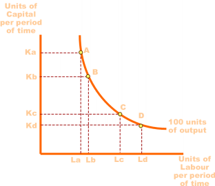 marginal rate of technical substitution